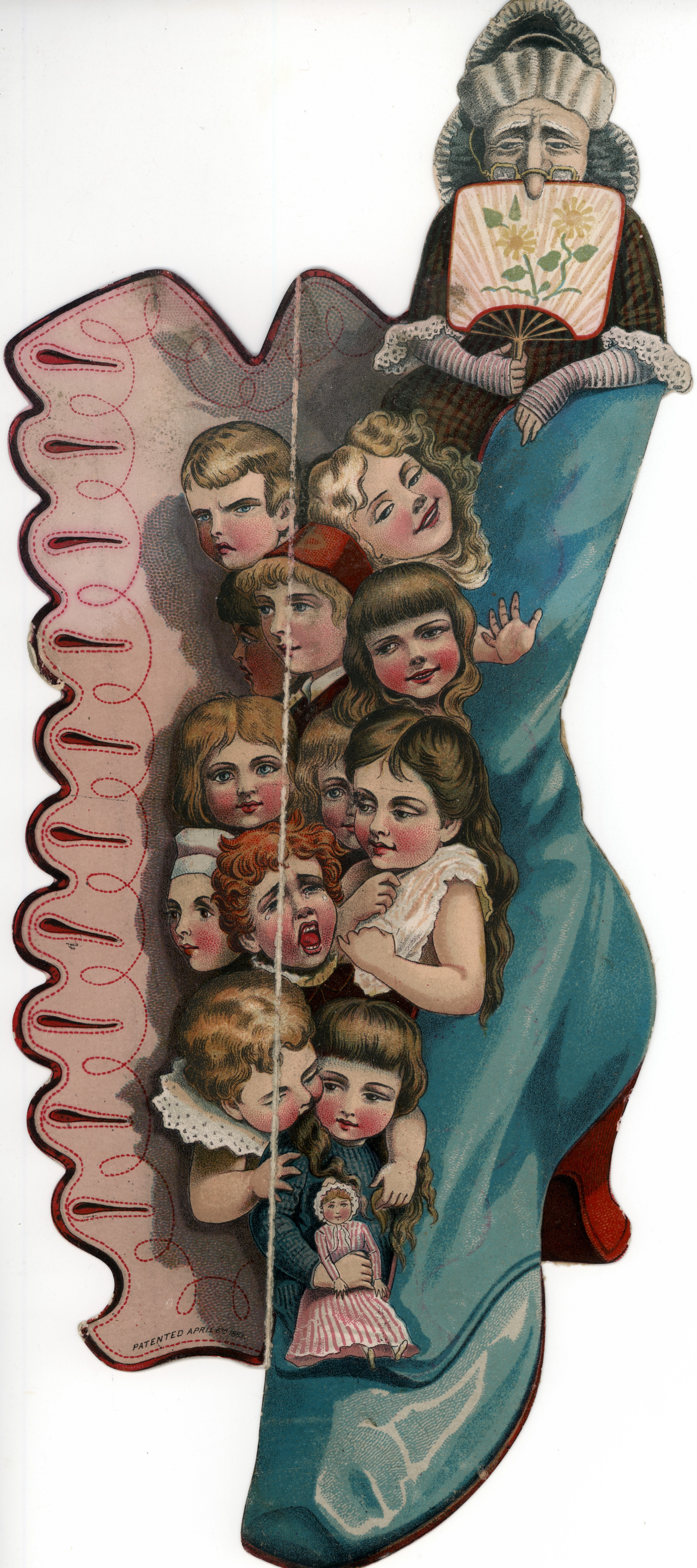 Noel Wisdom Chromolithograph Collection, Department of Special Collections, The University of South Florida Tampa Library.